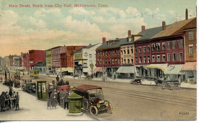 Postcard: Main Street north from City Hall, Middletown, Connecticut; 1912 postmark Original caption: ""Main Street, North from City Hall, Middletown, Conn" Lower righthand corner: "P12543" Store Web page states: "Postmarked 1912 with a Middletown cancel and mailed to L Peck, North Windham, Connecticut.""